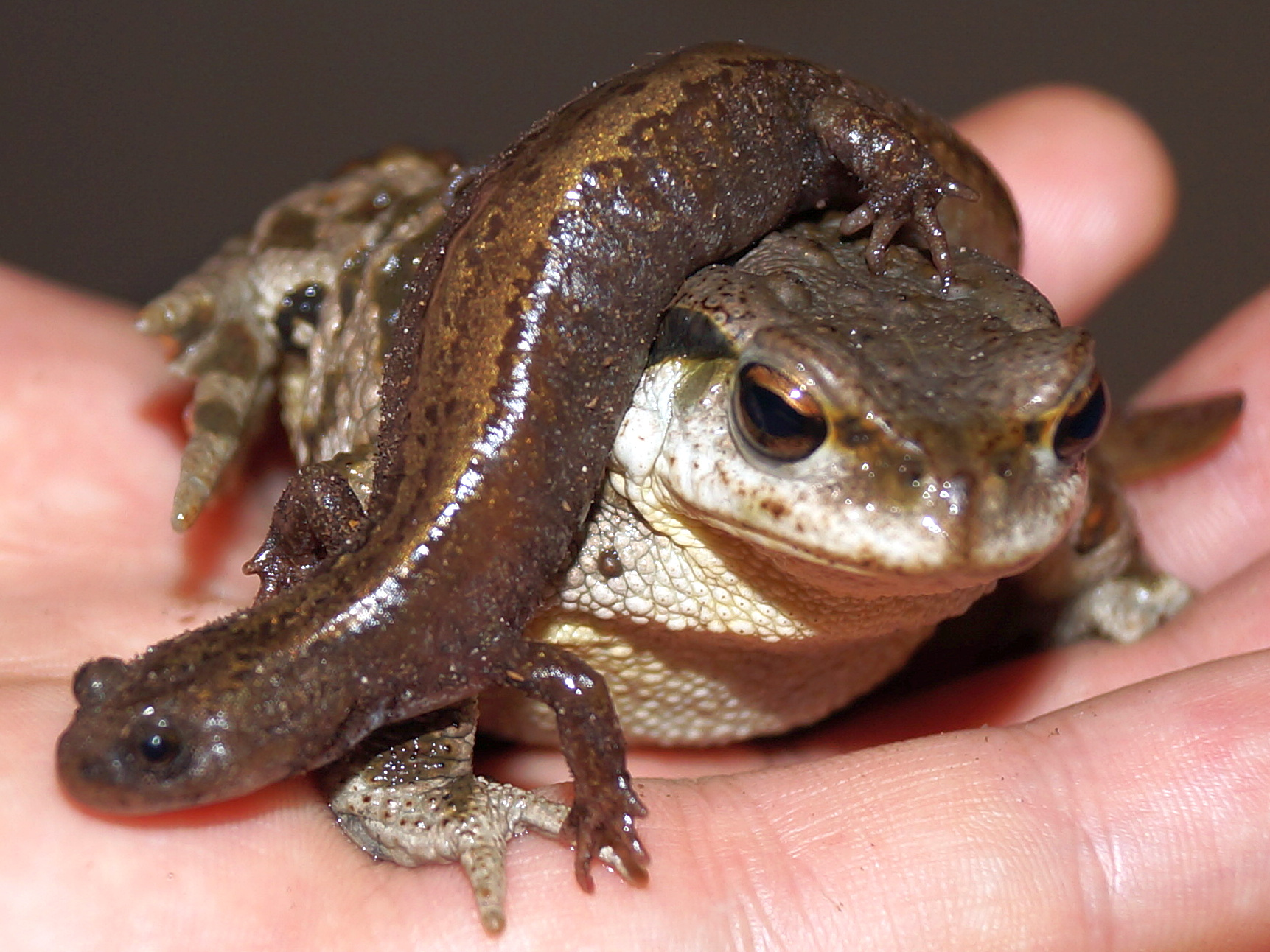 Salamandrella keyserlingii and Bufo gargarizans